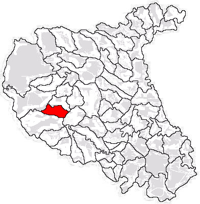 Limits of commune within Vrancea County